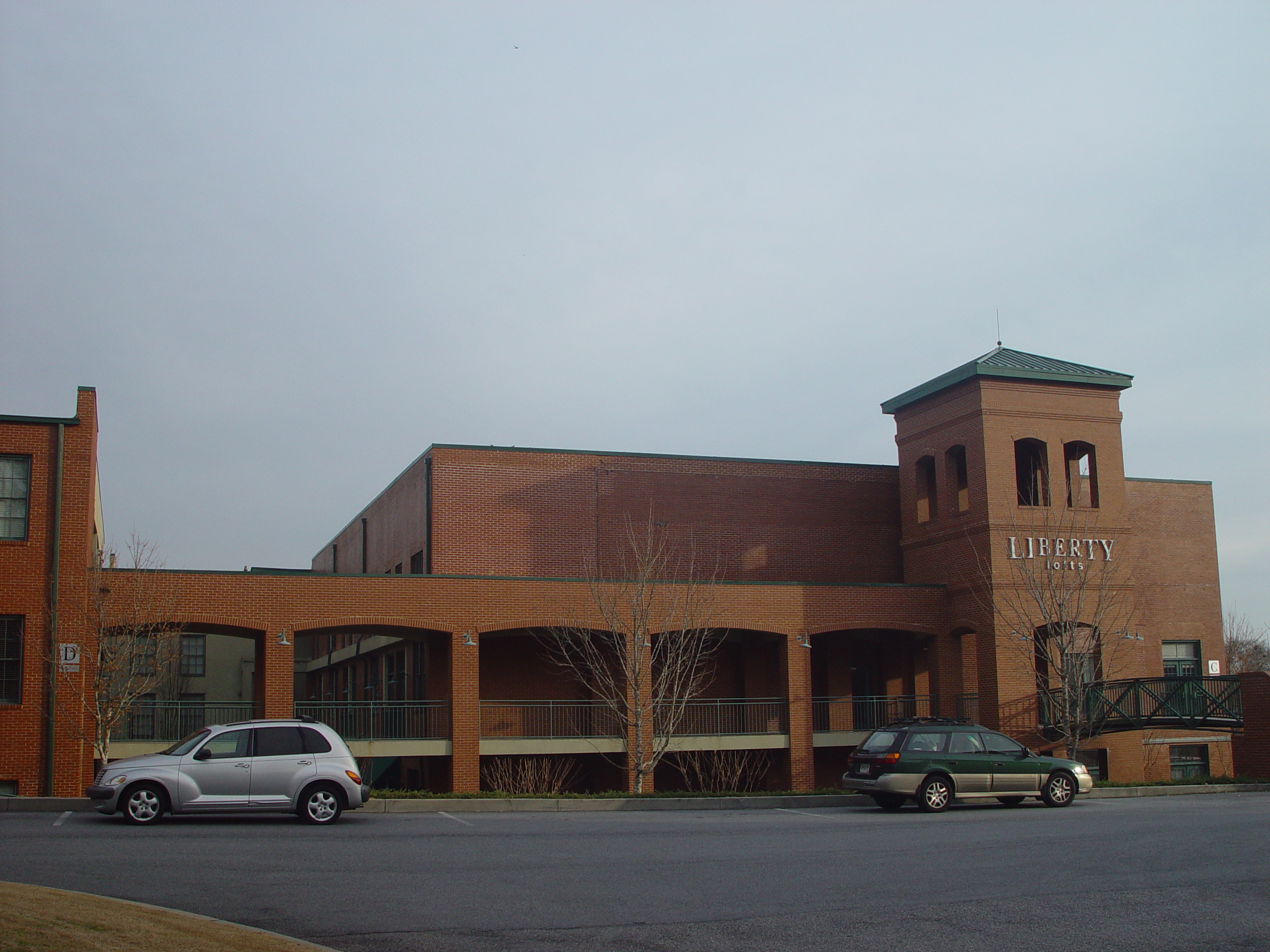 Liberty Lofts (Former site of Roswell High School's second campus), Roswell, Georgia, USA